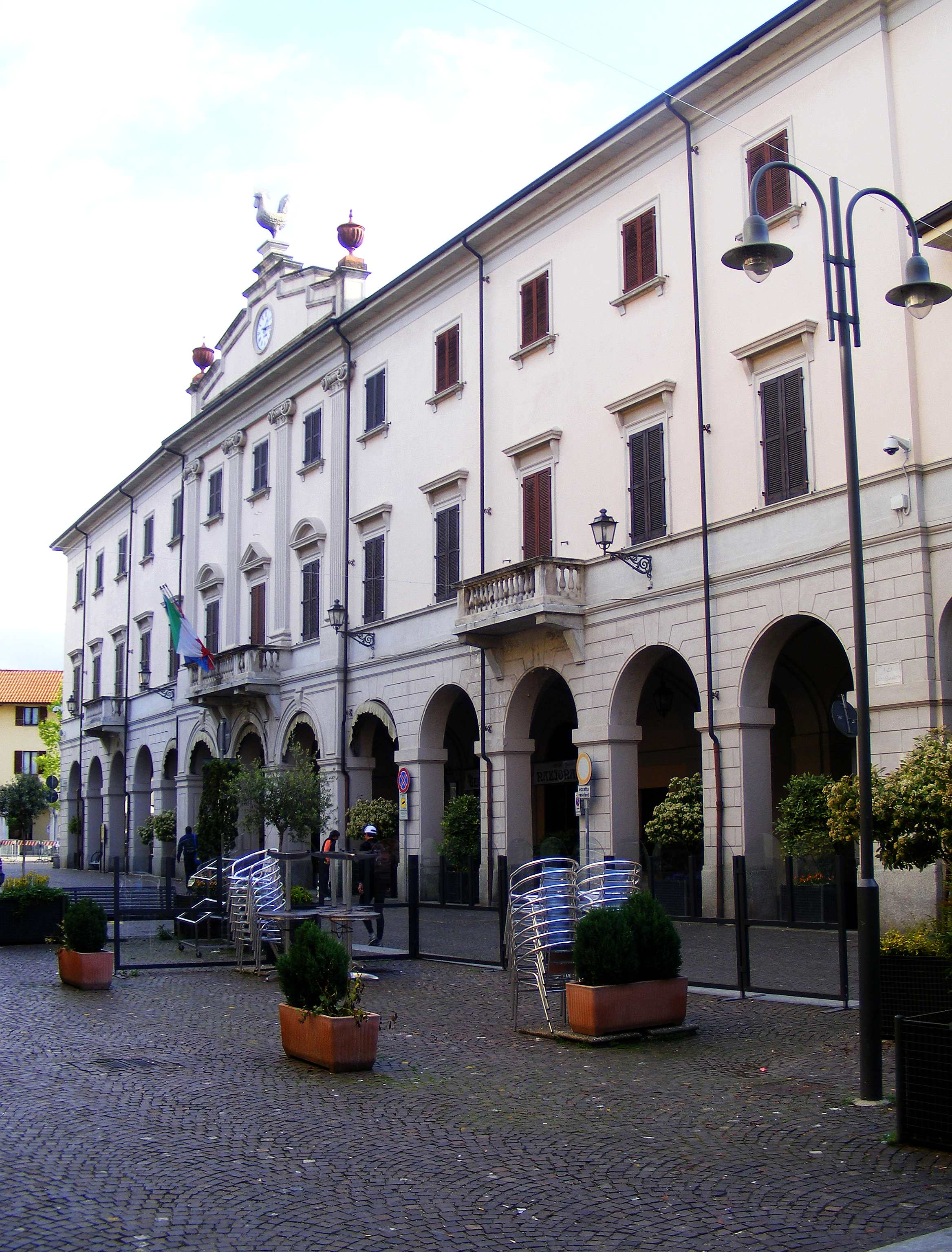 Galliate (NO, Italy): town hall